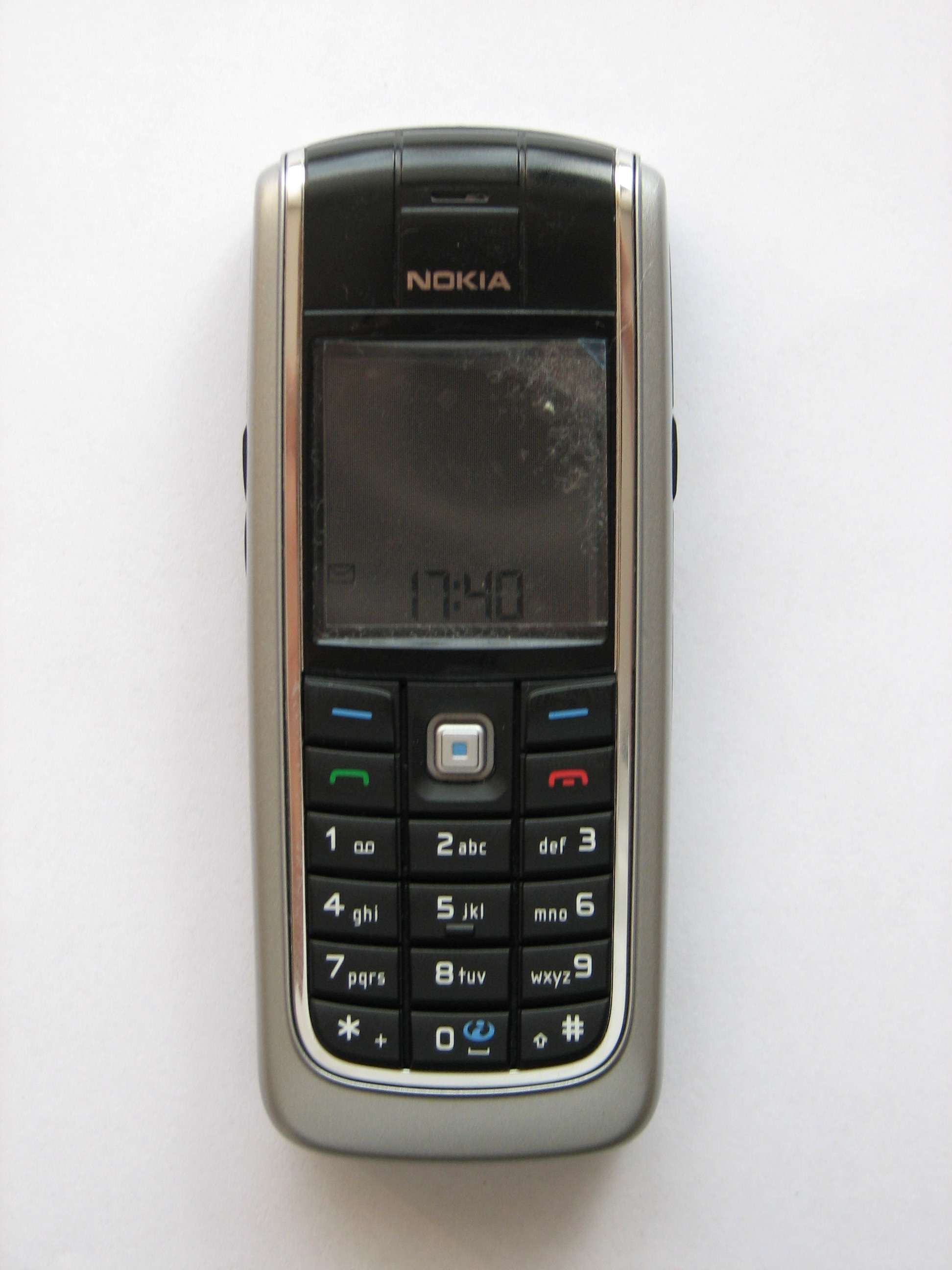 Brand-new Nokia 6021